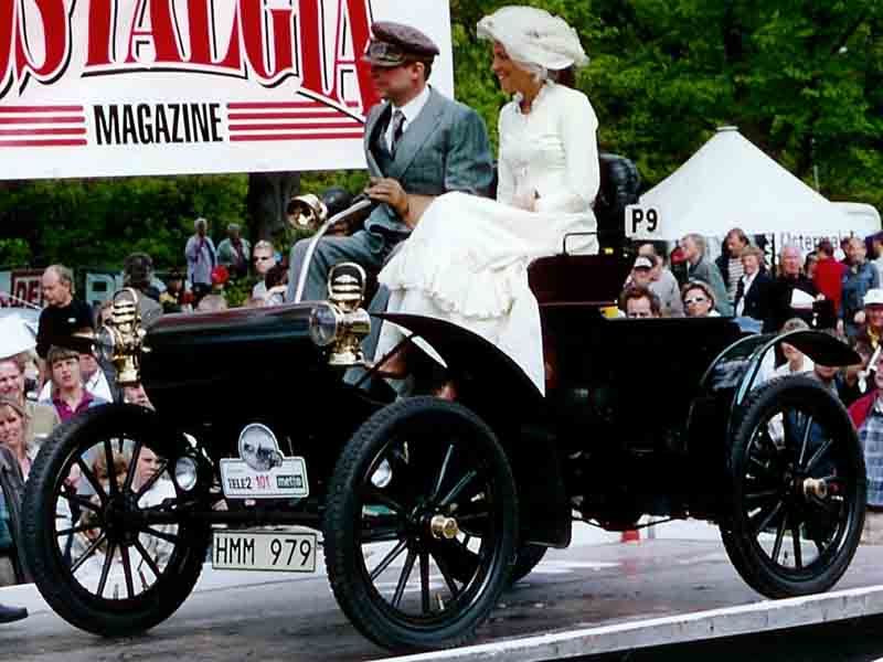 Oldsmobile Model 6C Curved Dash Runabout 1904